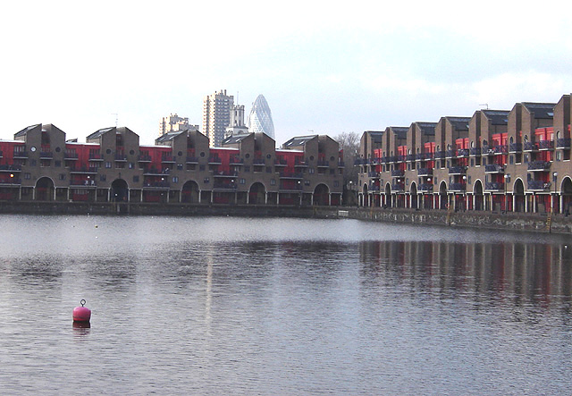 Shadwell Basin, Tower Hamlets, London. 6 January 2006. Photographer: Fin Fahey